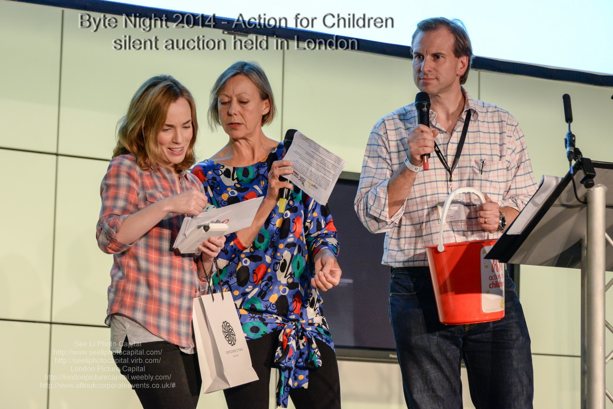 LONDON, ENGLAND, October 3, 2014: Action for Children hosts the annual Byte Night Overnight Challenge. Fundraisers hope to raise £1 million to tackle youth homelessness. Jenny Agutter and Template:Larry Lamb with hundreds of other supporters are sleeping out opposite Tower Bridge to help raise needed funds. Photo by See Li